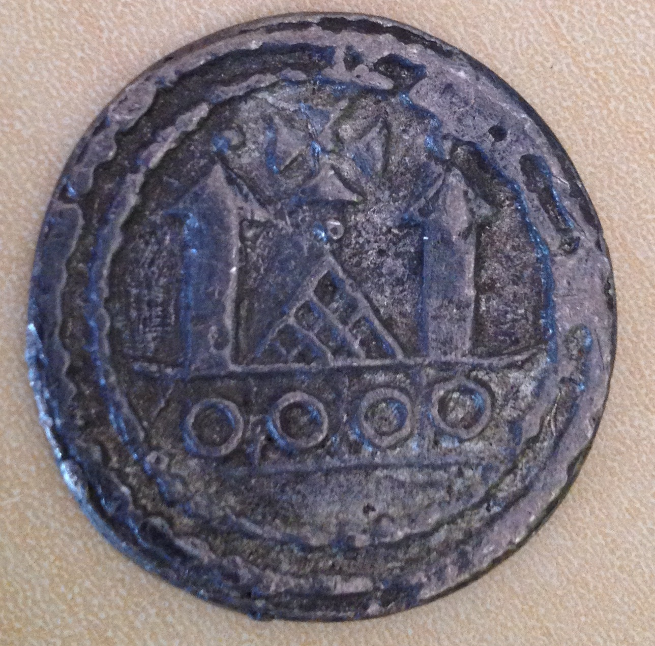 Friesacher Pfennig-backside